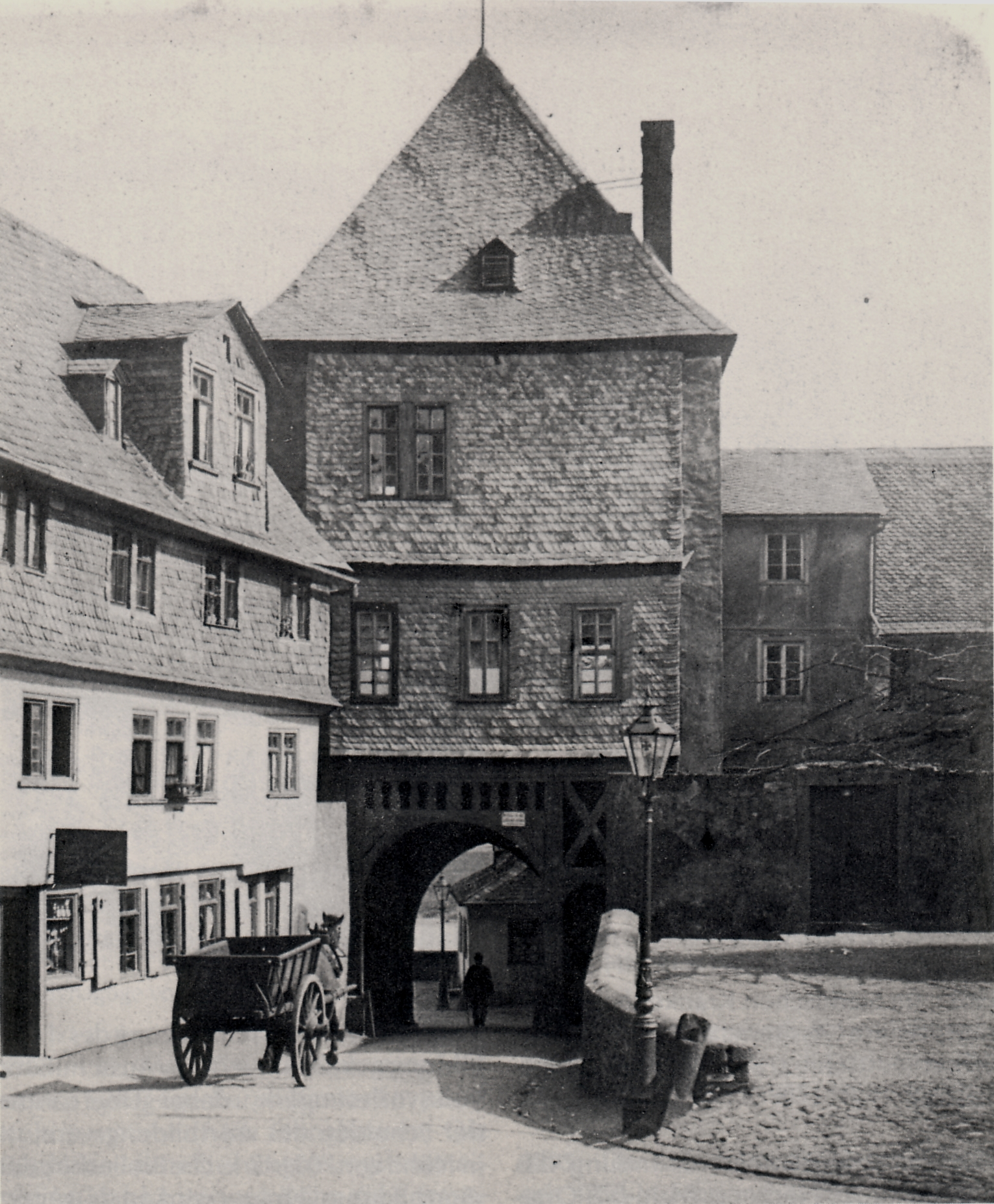 The „Toll Tower“ in the Schloßplatz in Frankfurt-Höchst in 1901